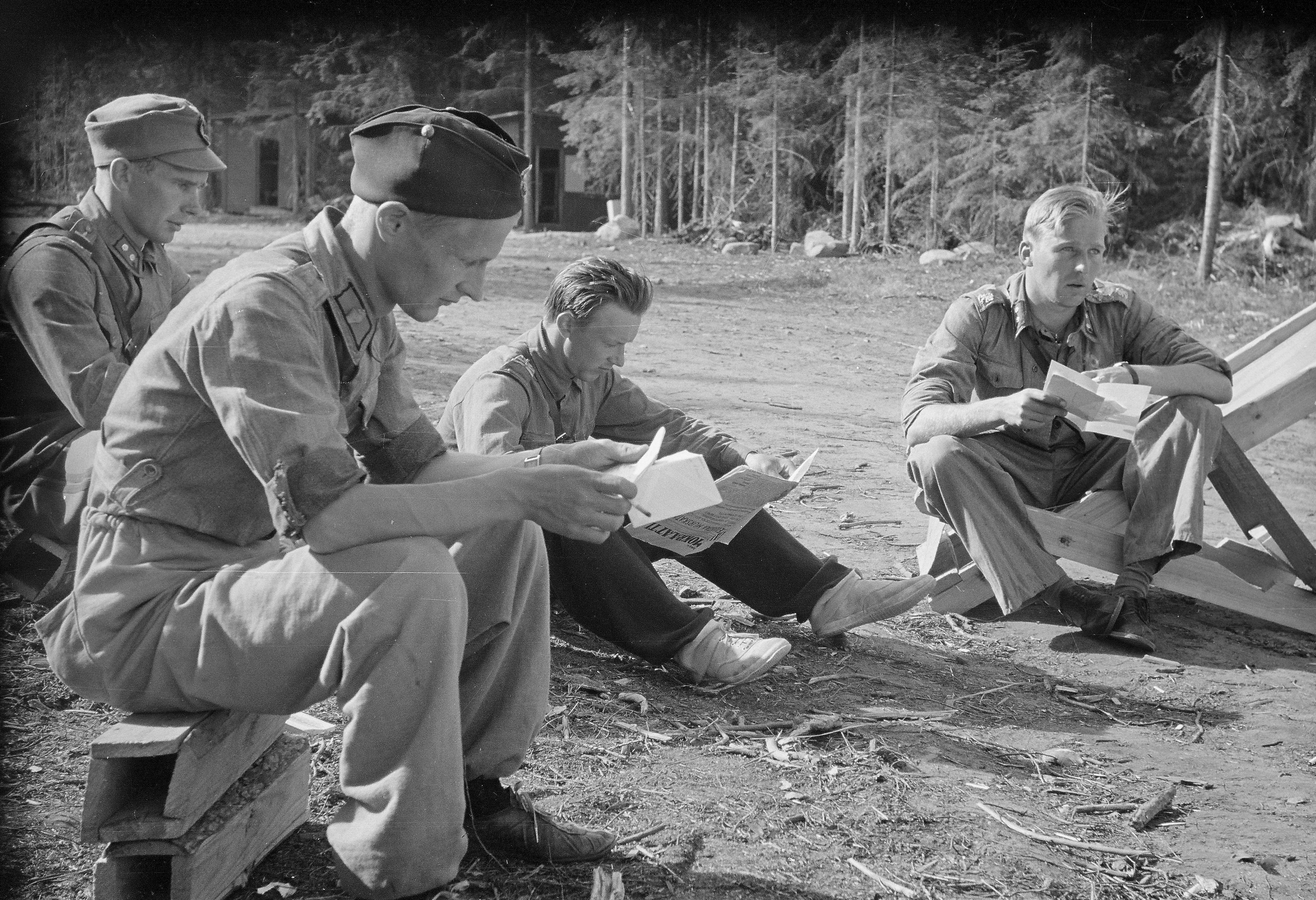 Military mail has arrived to the Flight, Continuation War. Lieutenant Sovelius on the right. Rantasalmi, Finland, 9 July 1941.